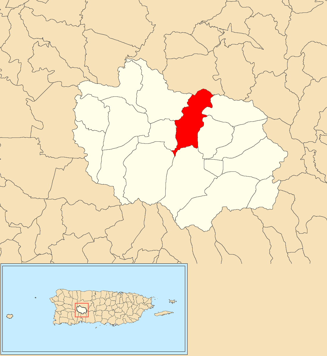 Capáez, Adjuntas, Puerto Rico locator map